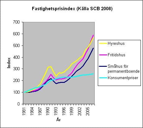 Swedish house prices. Sweden had a housing crisis in early 1990s.